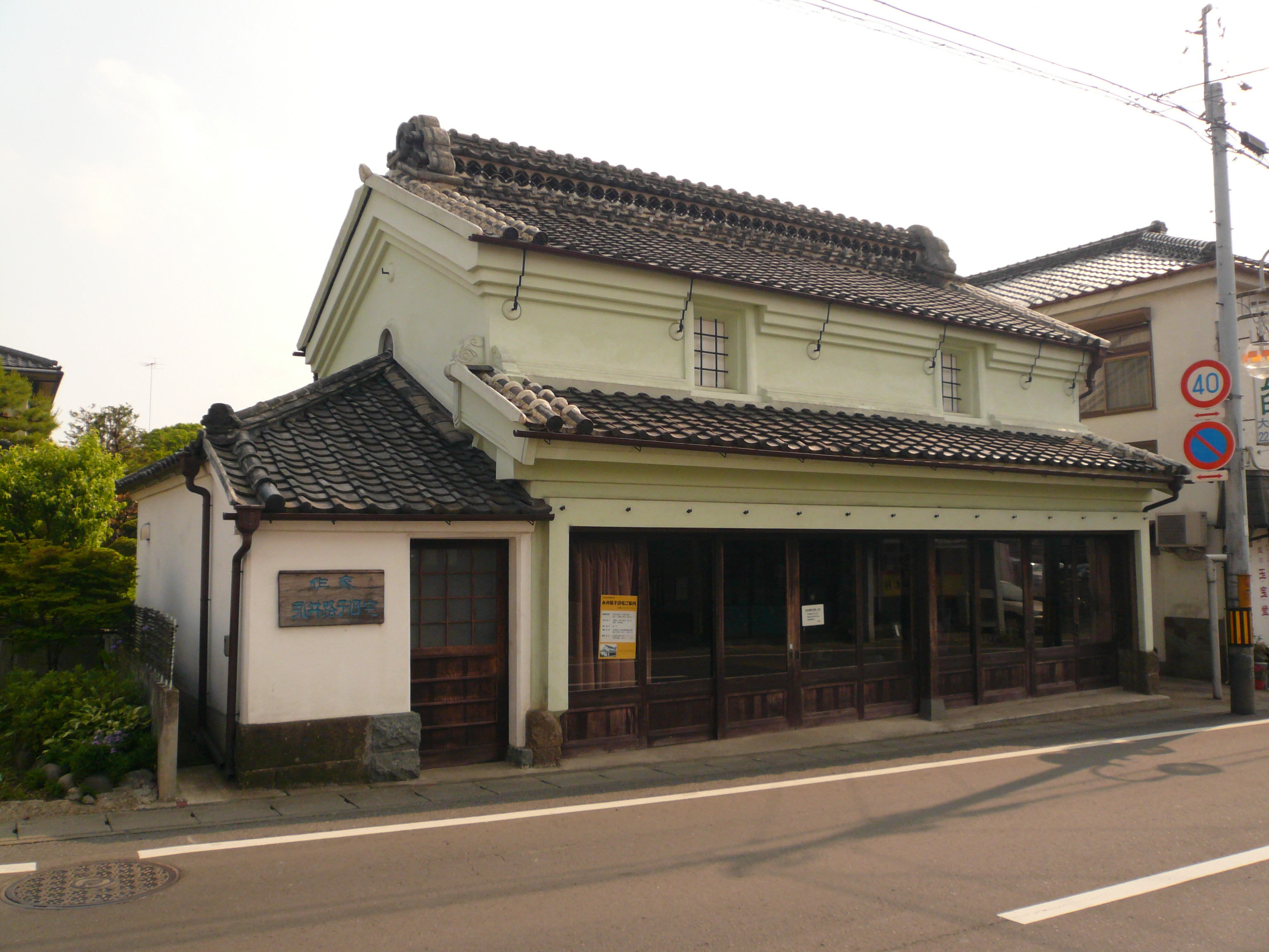 A former house of Michiko Nagai, Koga, Ibaraki, Japan